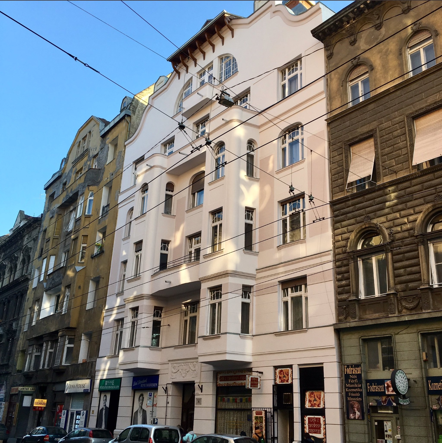 Probably early 20th century Hungarian Secession building on Baross utca